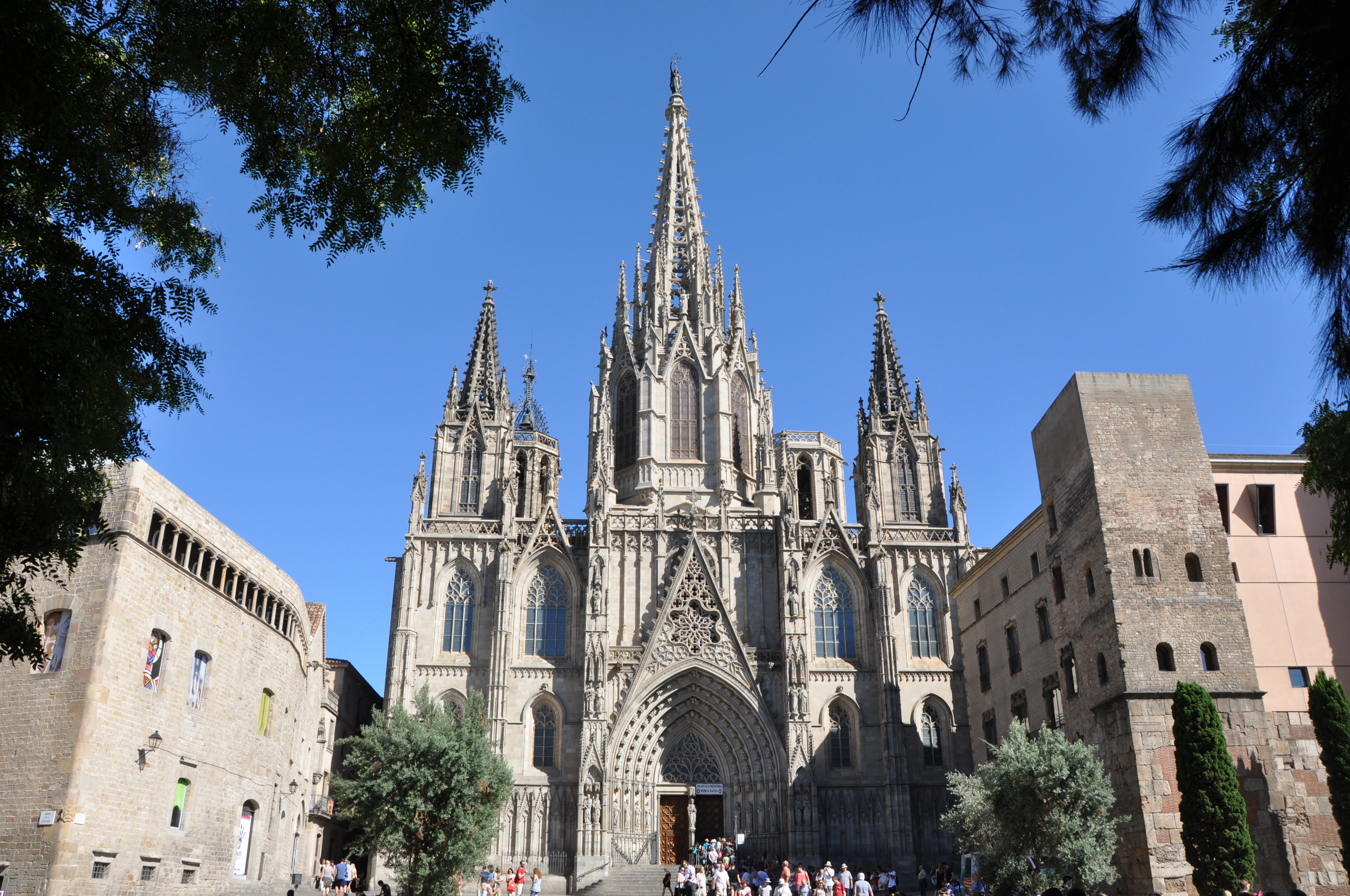 Barcelona. Cathedral church of the Holy Cross and Saint Eulalia. Neo-Gothic facade. Built in 1887-1890 by Josep Oriol Mestres, architect (according to a 15th. Century project). Spire built in 1906-1912 by August Font, architect